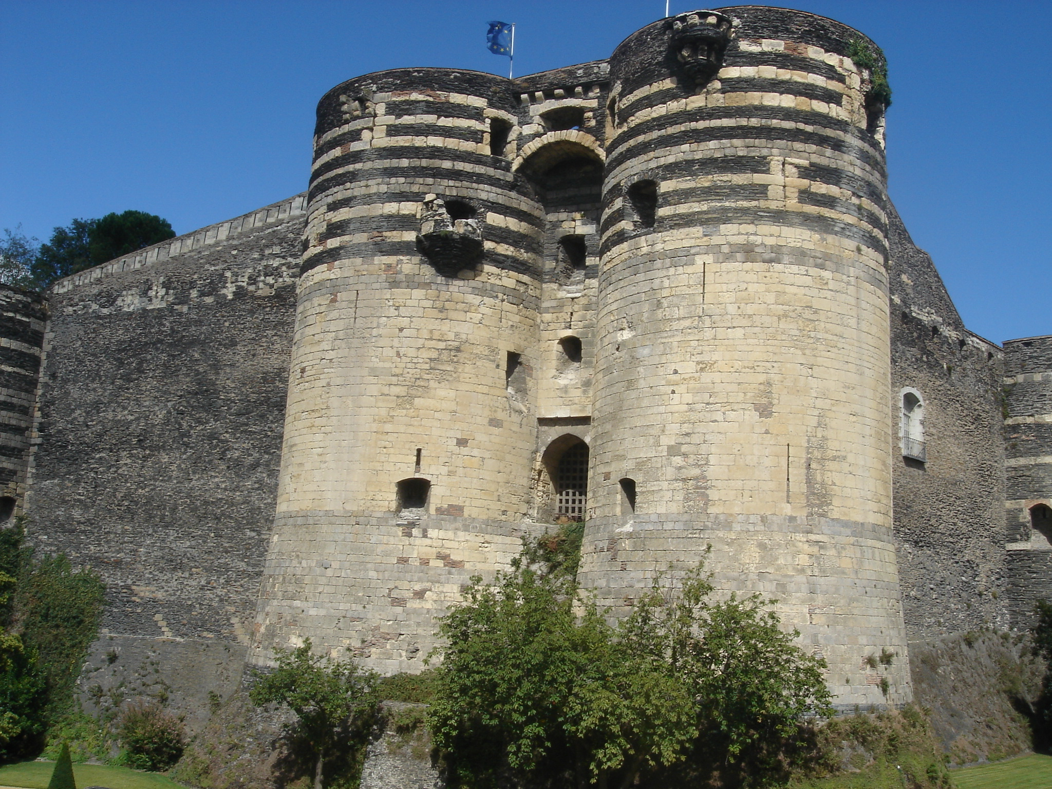 Took the photo a while back while my wife and I were visiting the city. Lovely little place.